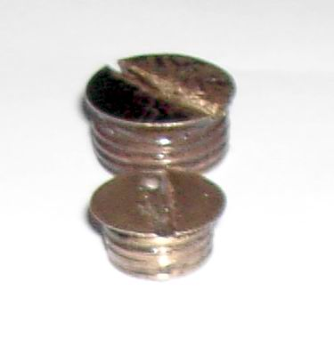 Comparison between the N°36 (up) and N°5/N°23 (down) filling plug.